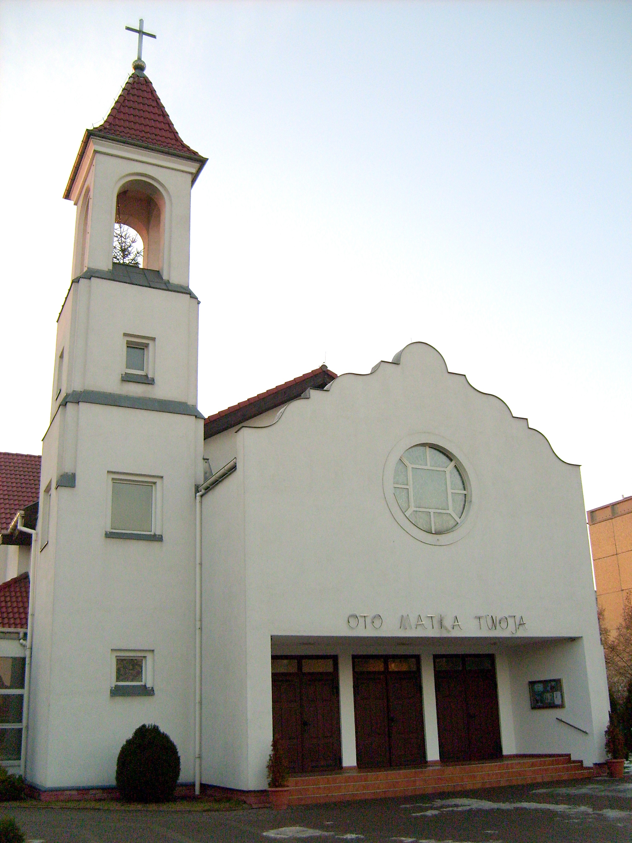 Parish church of Our Lady Mother of Mercy Parish, Swarzędz, Poland